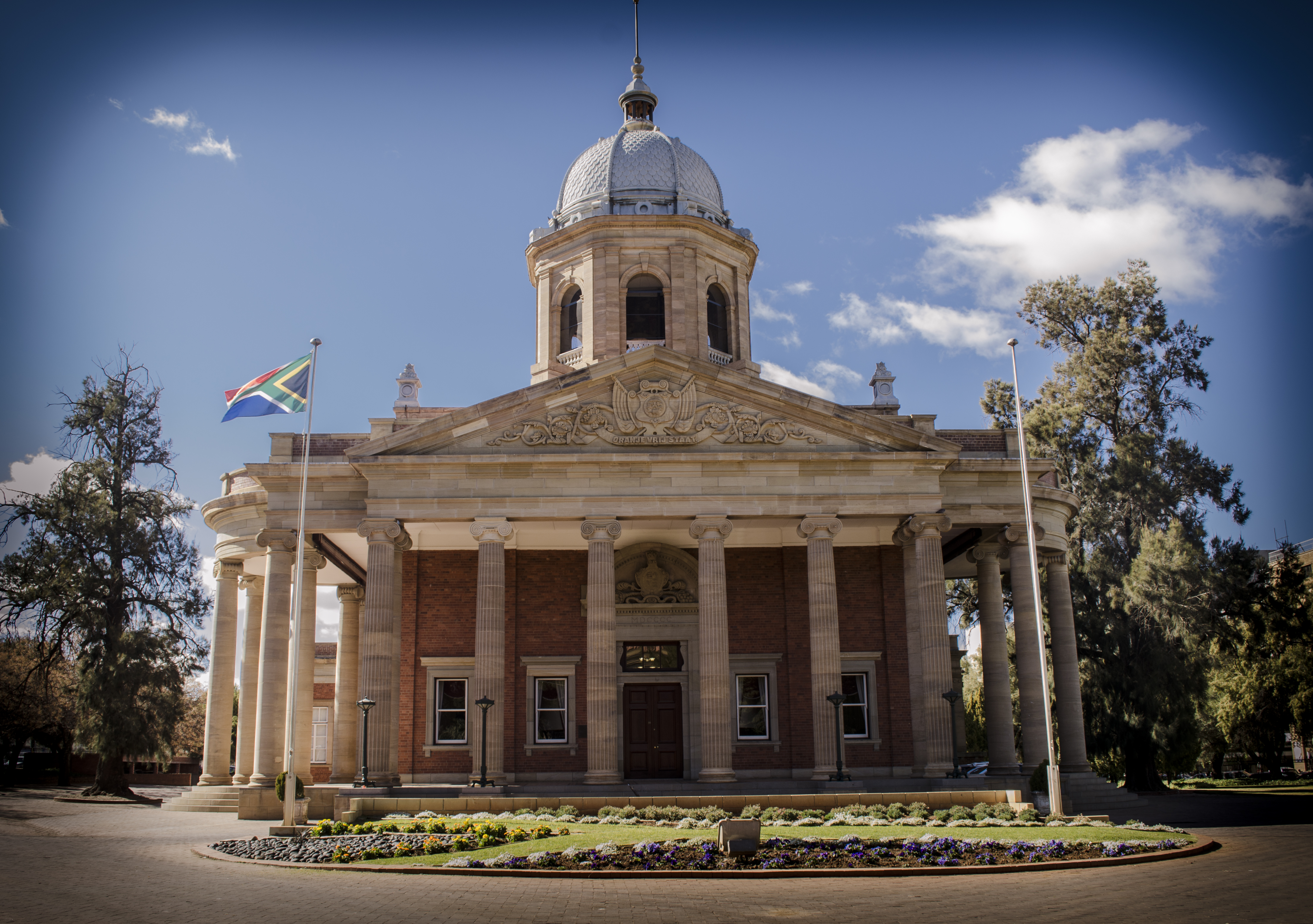 Die Vierde Raadsaal, President Brand Street, Bloemfontein, Free State, South-Africa. This media shows a South African Protected Site with SAHRA file reference 0000.